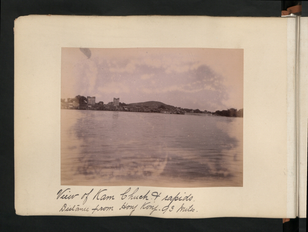 View of Kam Chuch & rapids Distance from Hong Kong. 93 Miles.